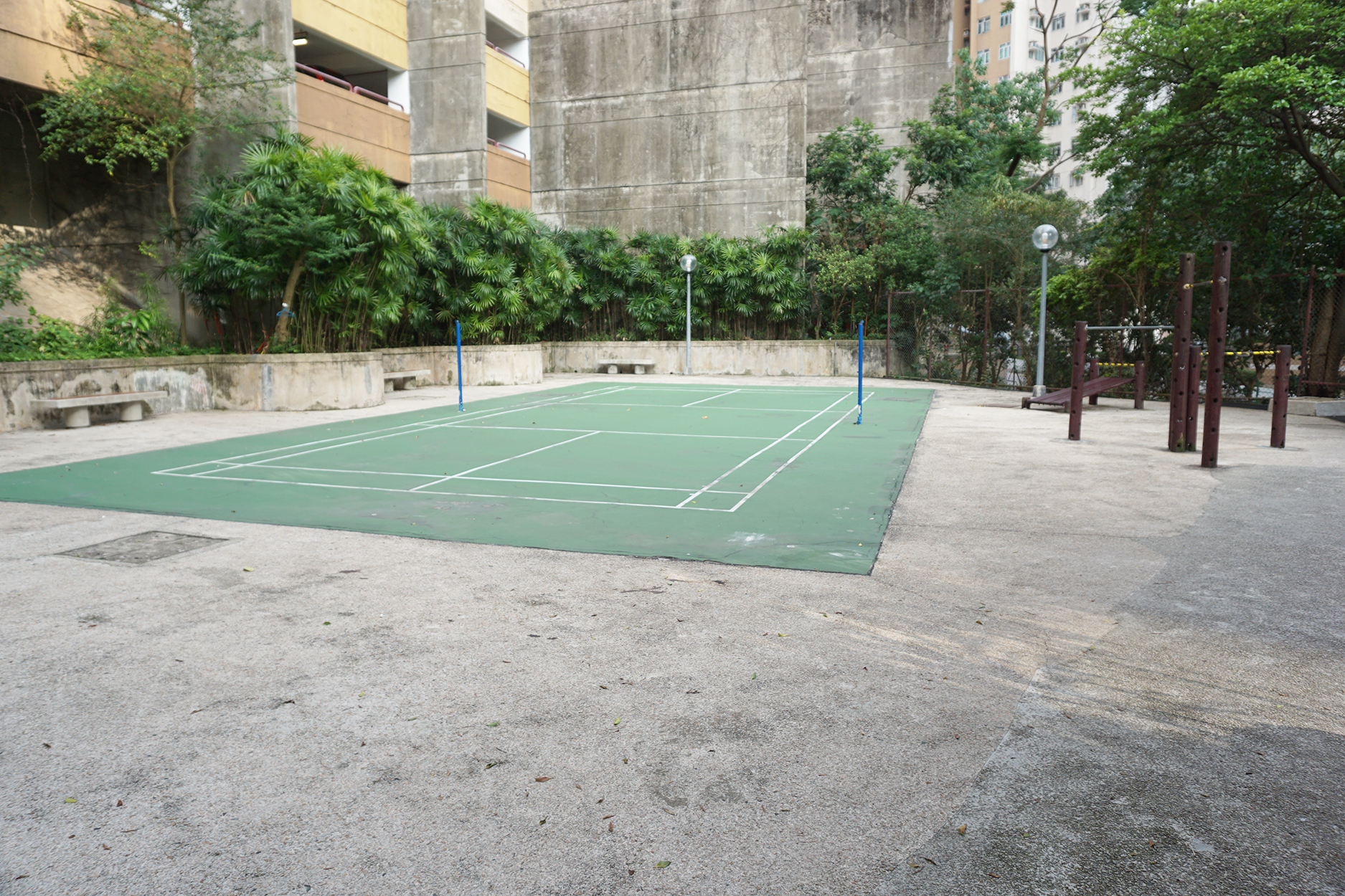 King Shan Court in Hammer Hill, Hong Kong.